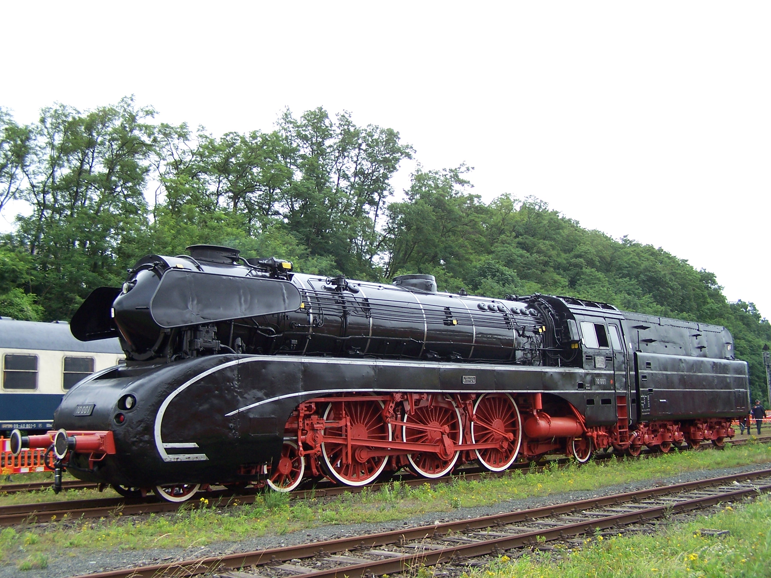 German steam locomotive DB Class 10 No 001 in Hersbruck, Germany, June 30th, 2007